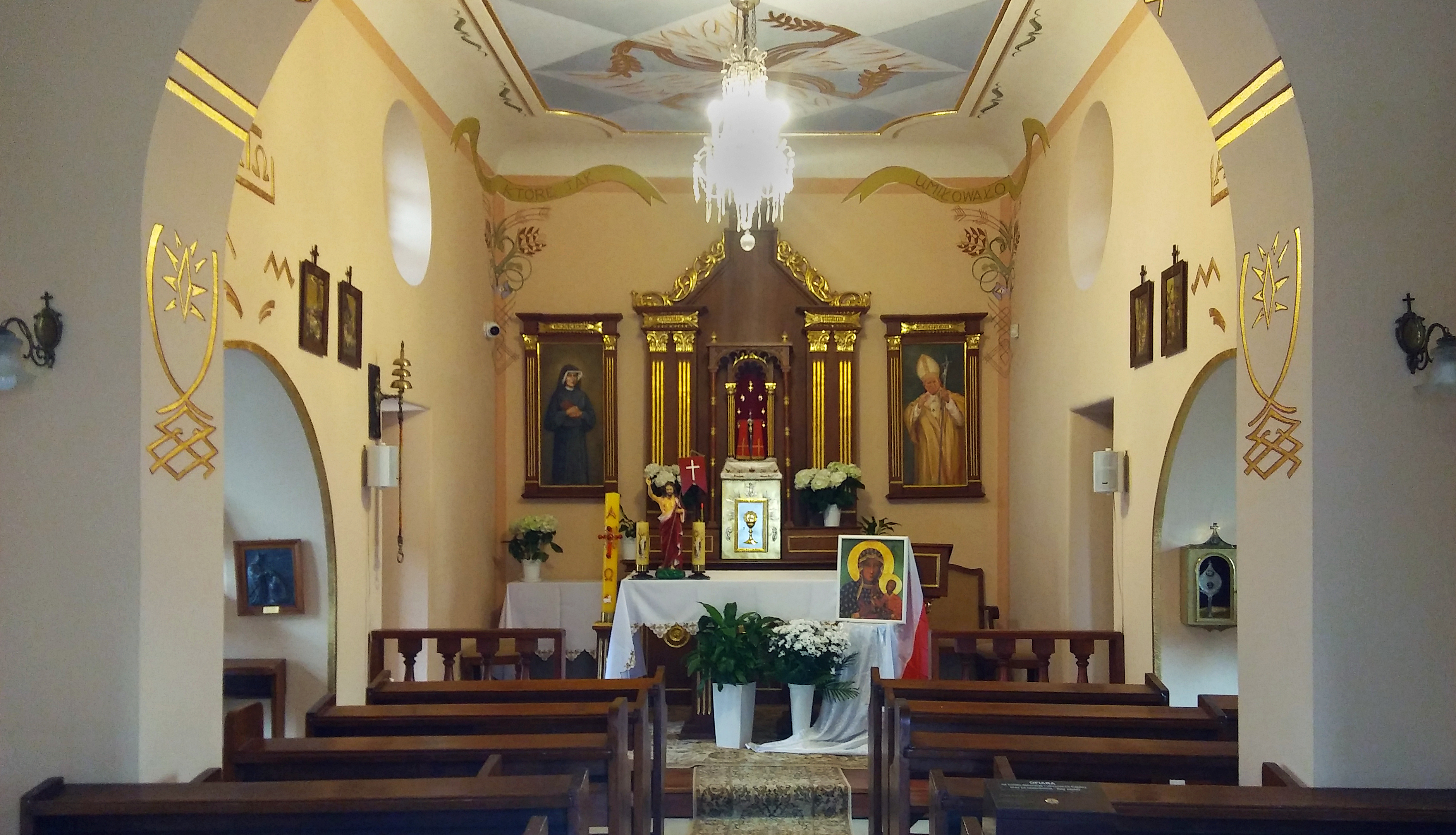 Sacred Heart of Jesus chapel (interior), 80 Prądnicka street, Kraków, Poland